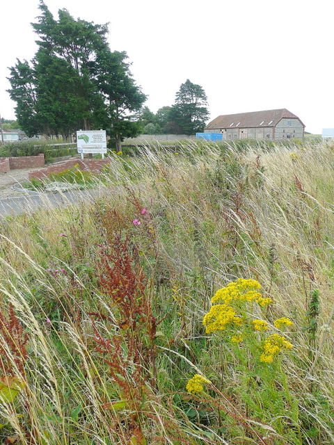 Verge with wild flowers A piece of wide verge with a view to barn conversions at Easton Farm.